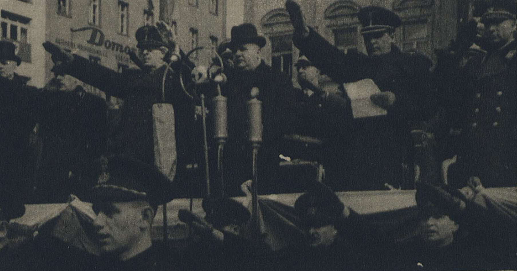 Jozef Tiso at second anniversary of 14 March 1939